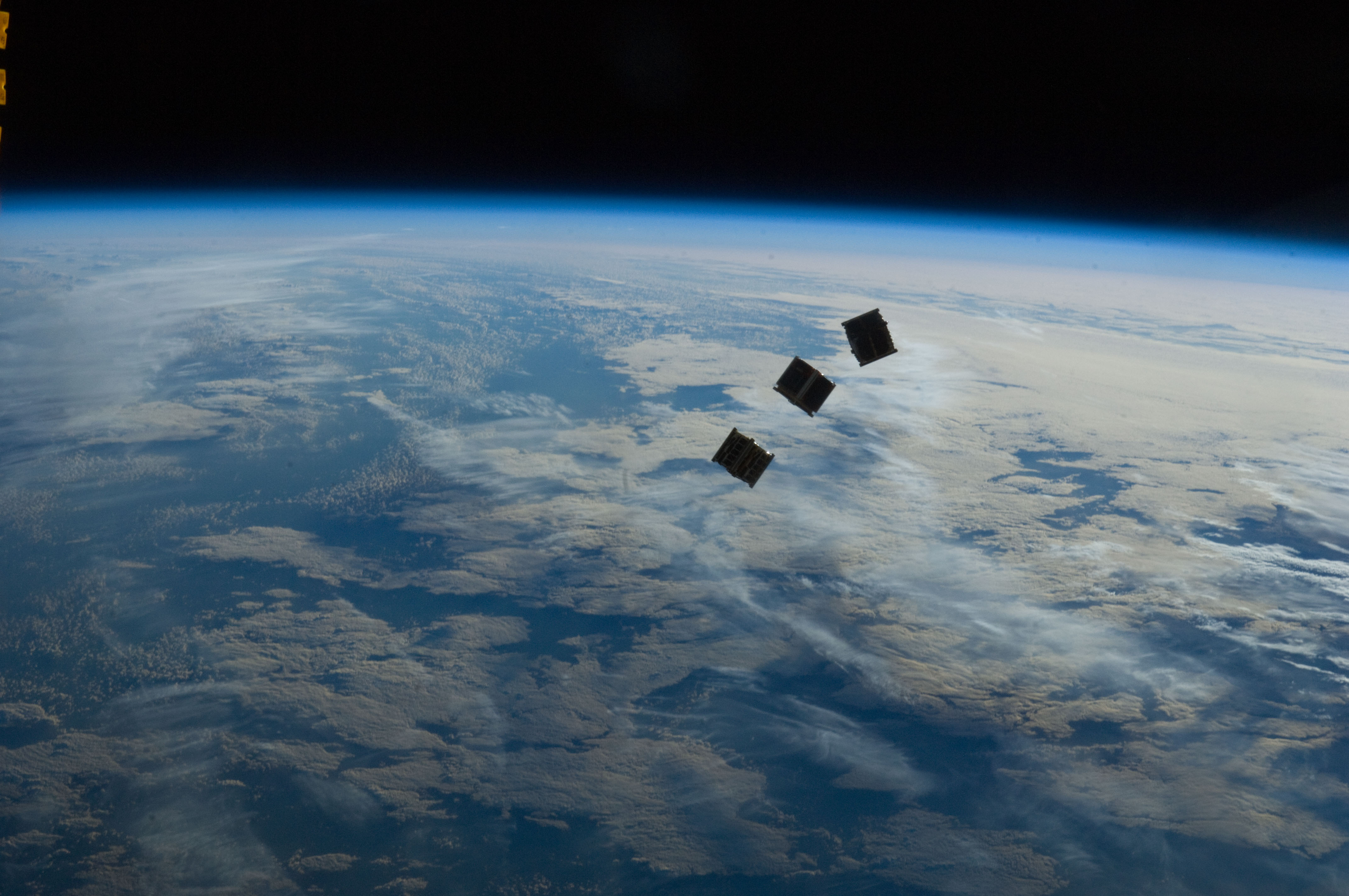 Several tiny satellites are featured in this image photographed by an Expedition 33 crew member on the International Space Station. The satellites were released outside the Kibo laboratory using a Small Satellite Orbital Deployer attached to the Japanese module's robotic arm on Oct. 4, 2012. Japan Aerospace Exploration Agency astronaut Aki Hoshide, flight engineer, set up the satellite deployment gear inside the lab and placed it in the Kibo airlock. The Japanese robotic arm then grappled the deployment system and its satellites from the airlock for deployment. Earth's horizon and the blackness of space provide the backdrop for the scene.